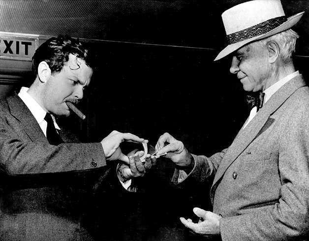 Photograph of Orson Welles and Carl Sandburg at the time of the War Bond drive broadcast I Pledge America, on the Blue Network August 29, 1942